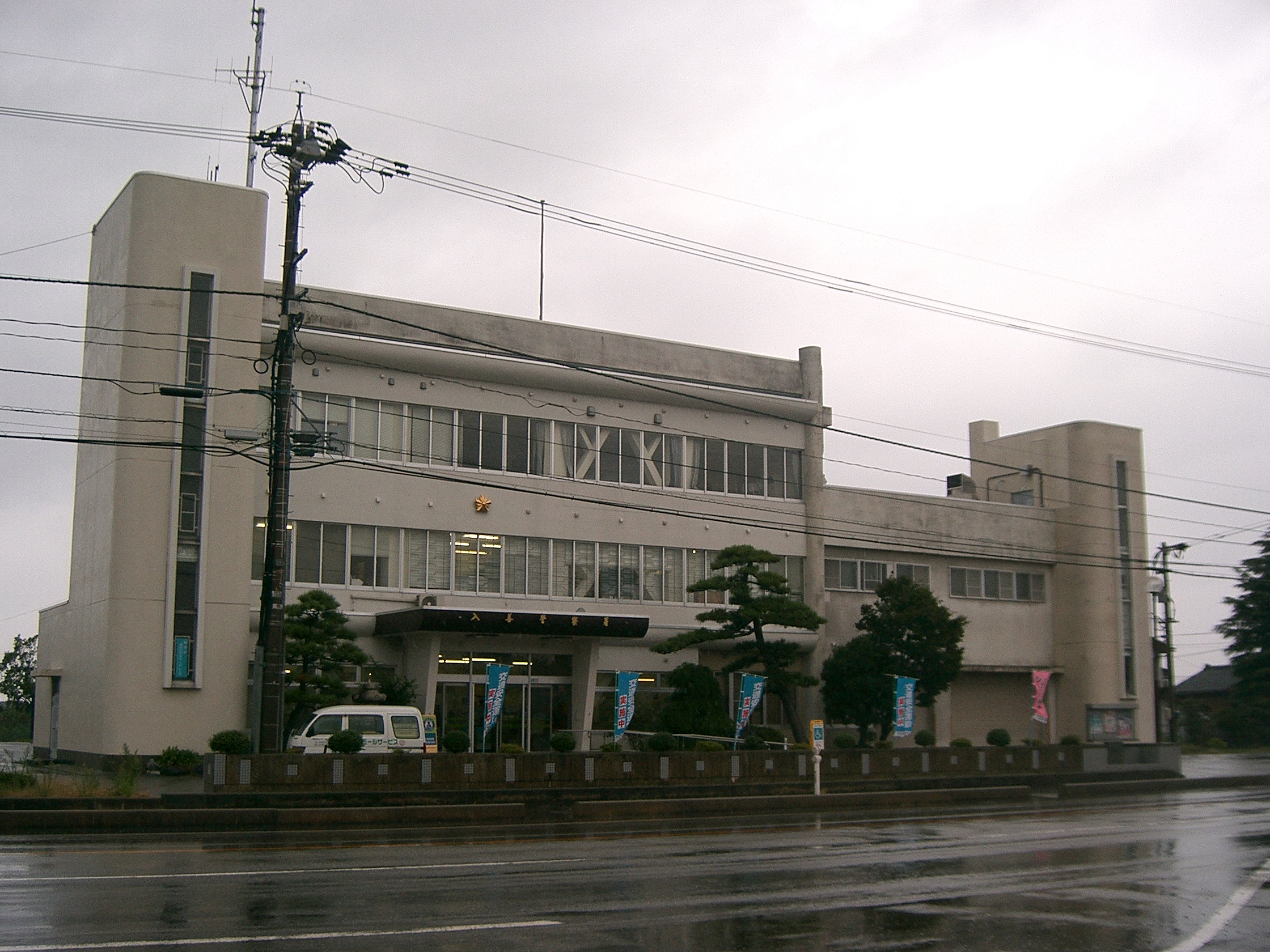 Nyuzen Police Station